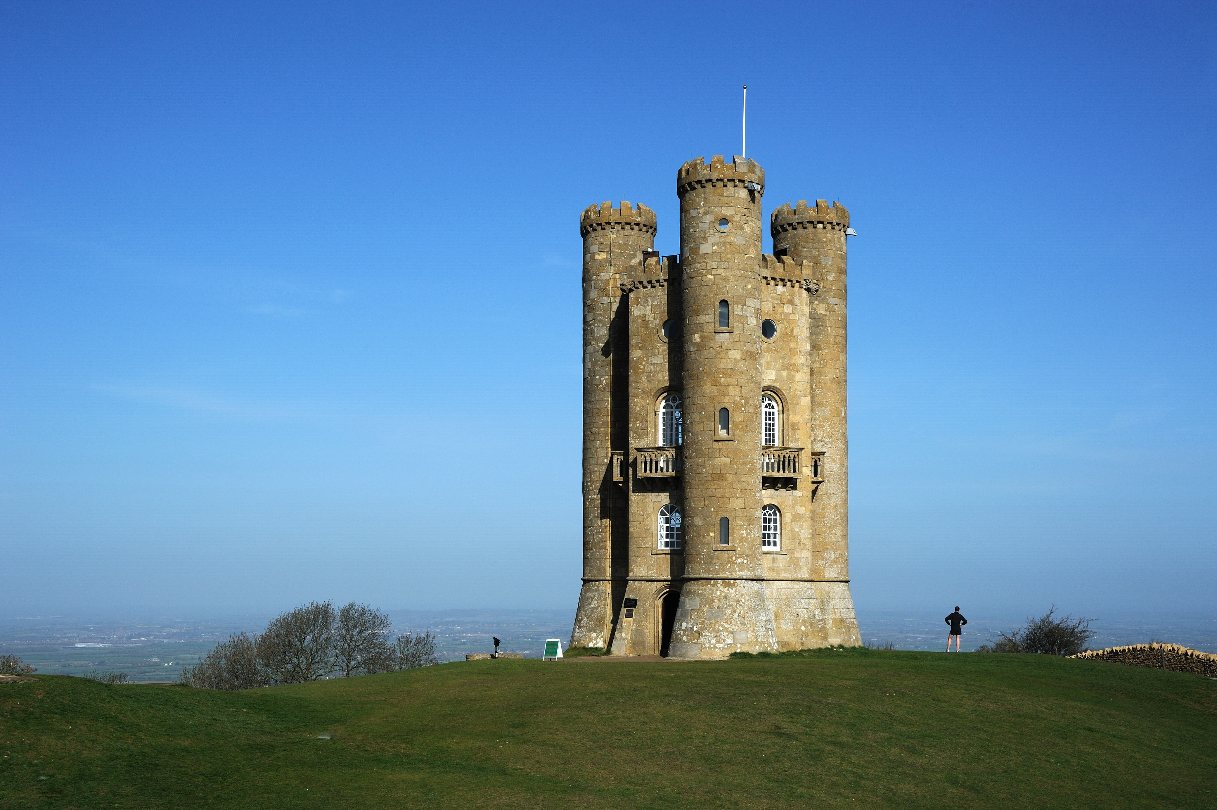 Broadway Tower, a folly in the English county of Worcestershire. The "Saxon" tower was designed by James Wyatt in 1794 to resemble a mock castle, and built for Lady Coventry in 1799. Broadway Tower sits on the edge of the second highest point in the Cotswolds overlooking the village of Broadway and the Severn Vale. From the top of the tower, on a clear day, as many as 16 English counties can be identified.